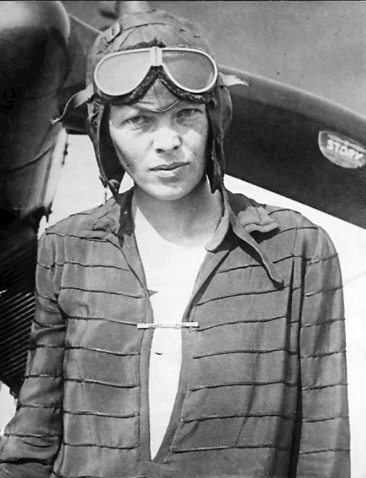 Photo of Amelia Earhart in flight cap and goggles as she awaits word as to whether she would be among those who were flying across the Atlantic in 1928.